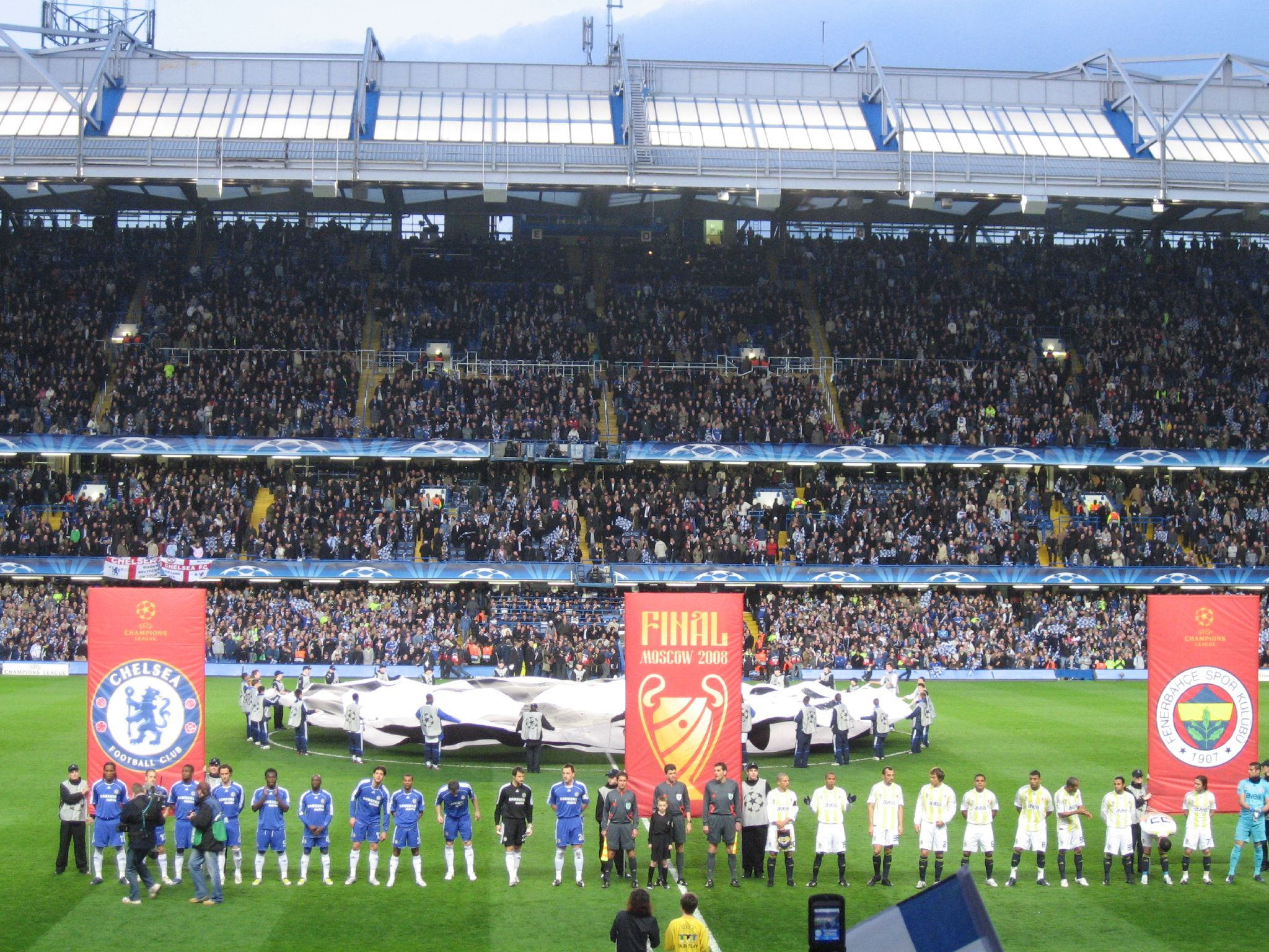 2007-08 Champions League match between Chelsea FC and Fenerbahce in London. Result was 2-0.